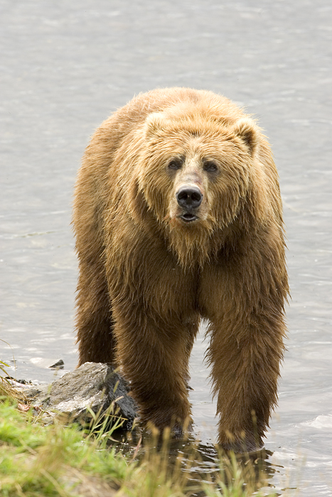 Brown Bear (Ursus arctos)